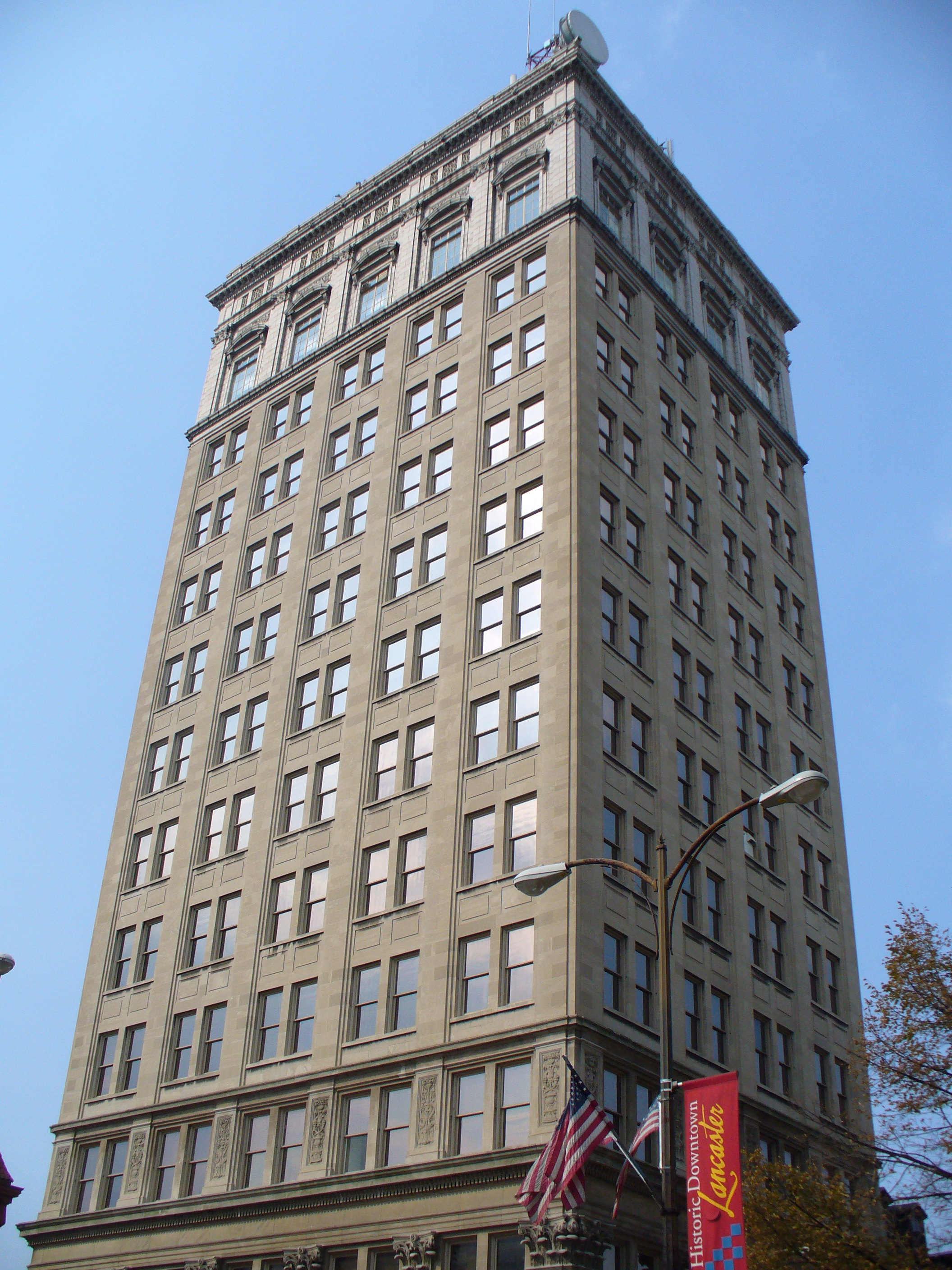 The Griest Building in downtown Lancaster, Pennsylvania. Located at 8 North Queen Street, Lancaster, PA.